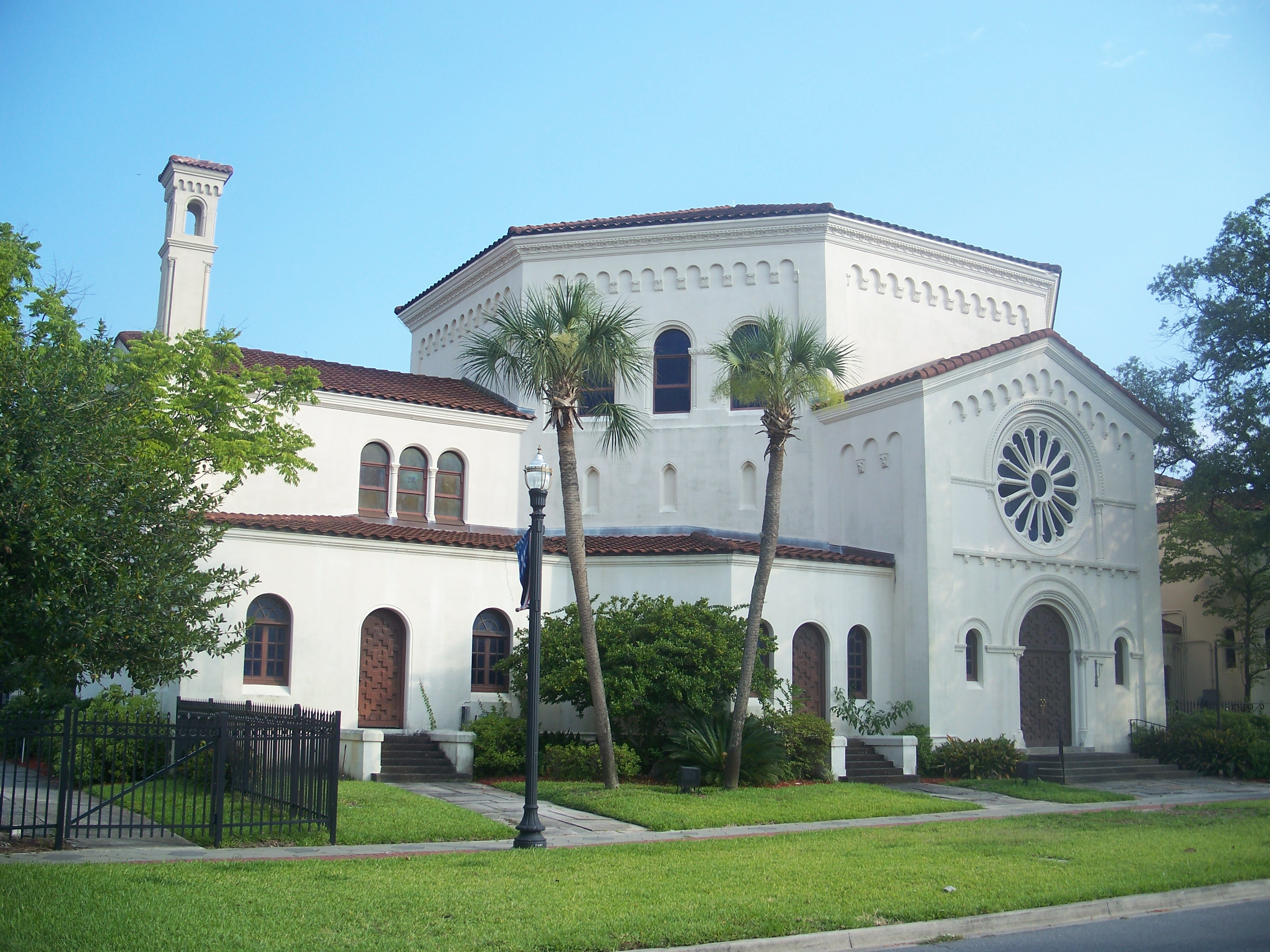 Jacksonville, Florida: Riverside Historic District: Baptist Church